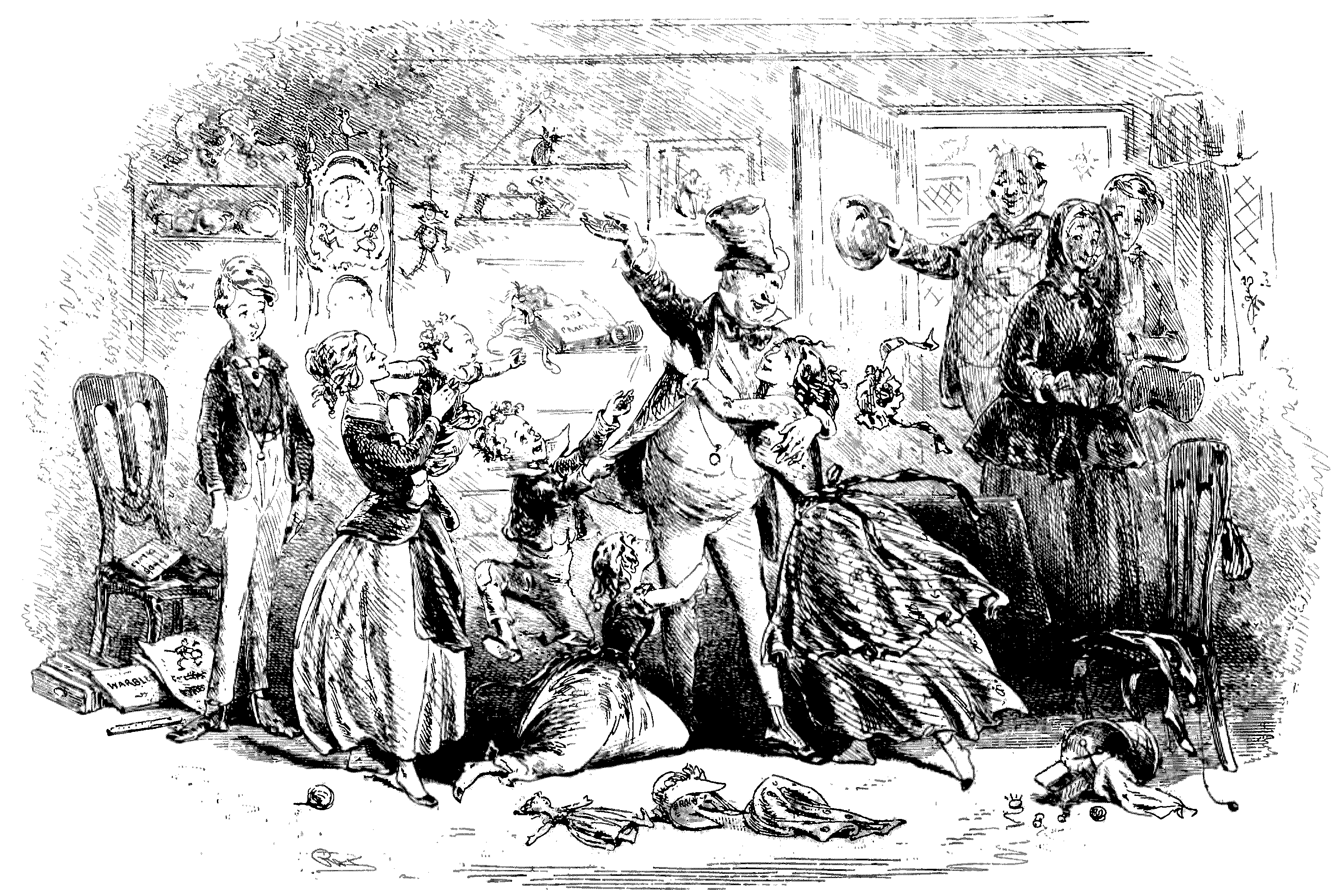 RESTORATION OF MUTUAL CONFIDENCE BETWEEN MR. AND MRS. MICAWBER